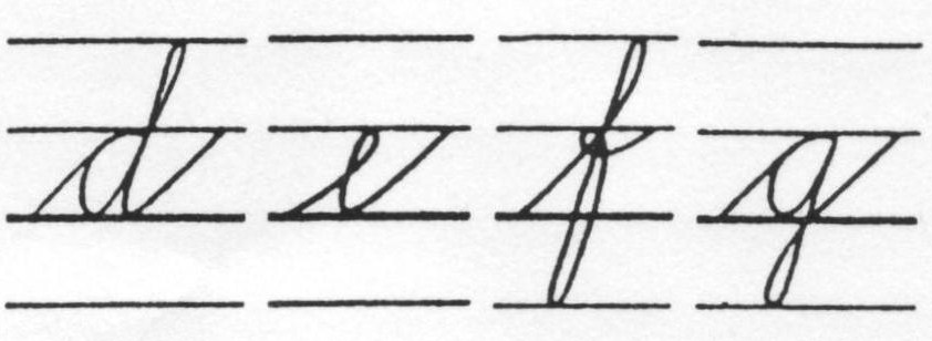 Swedish script